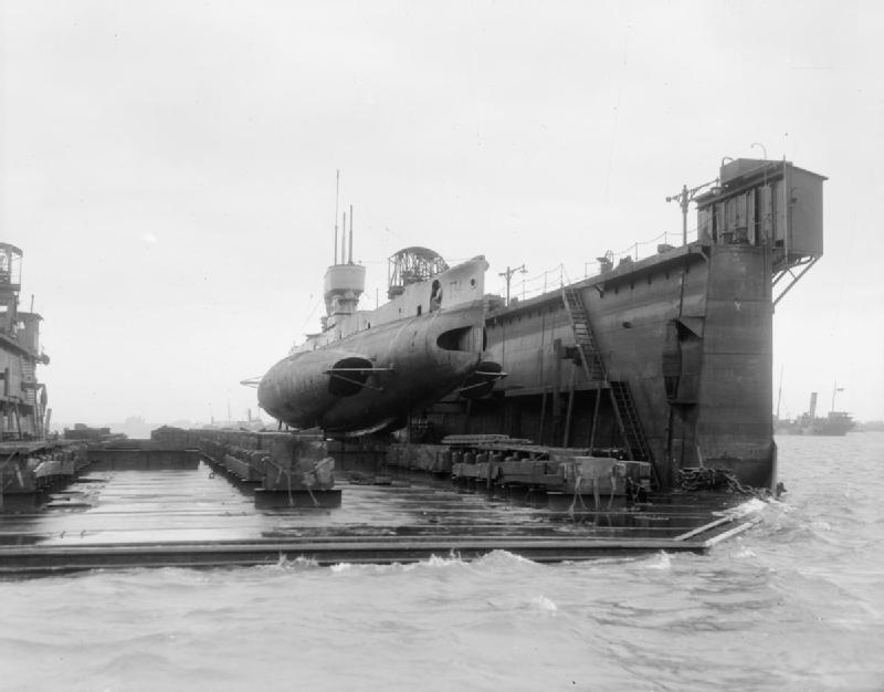 Photograph of British submarine E 34 in a floating dock.